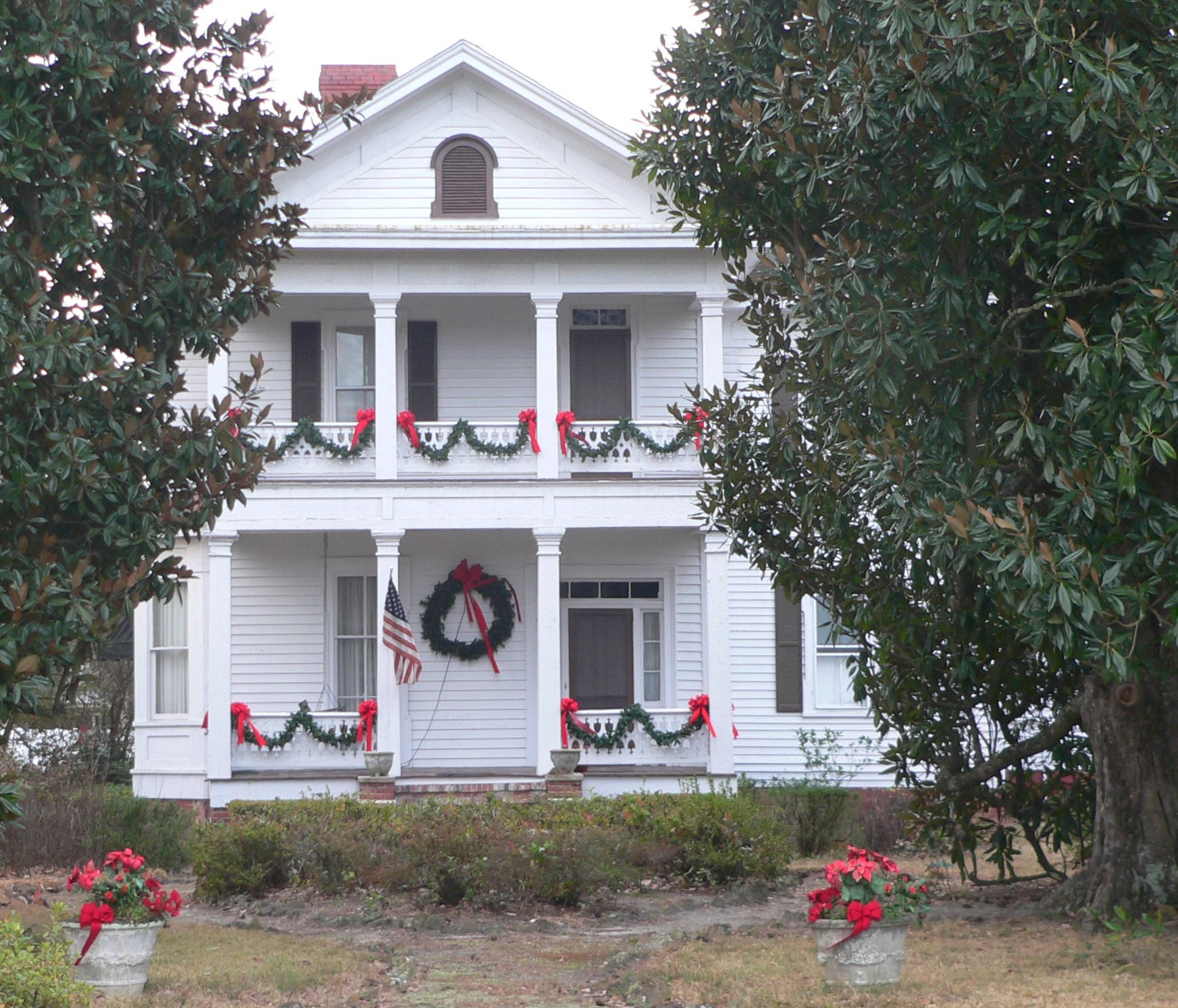 Alfred Rowland house, located at 1111 Carthage Road in Lumberton, North Carolina; seen from Carthage.